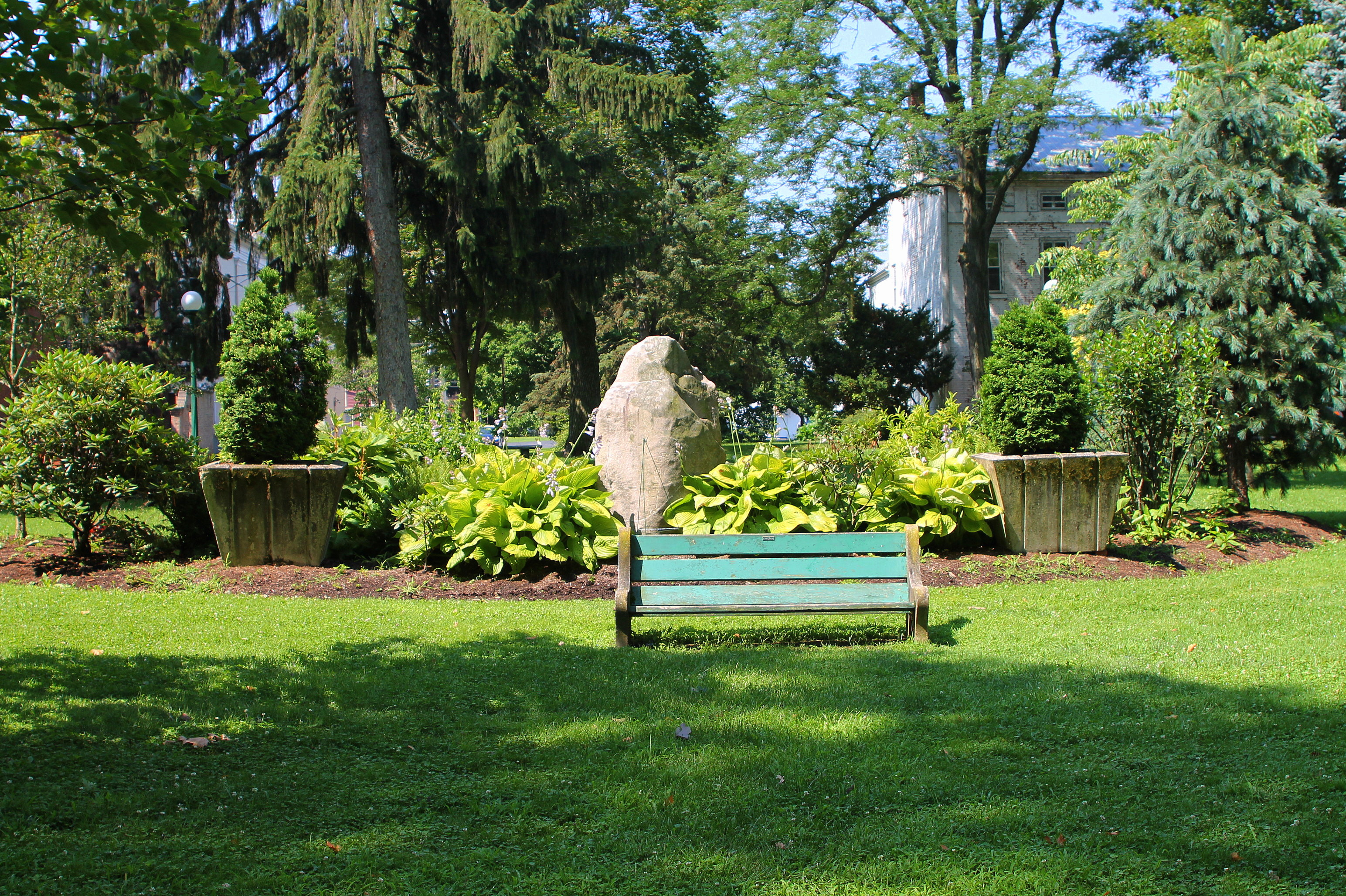 Memorial park in Lewisburg, Pennsylvania